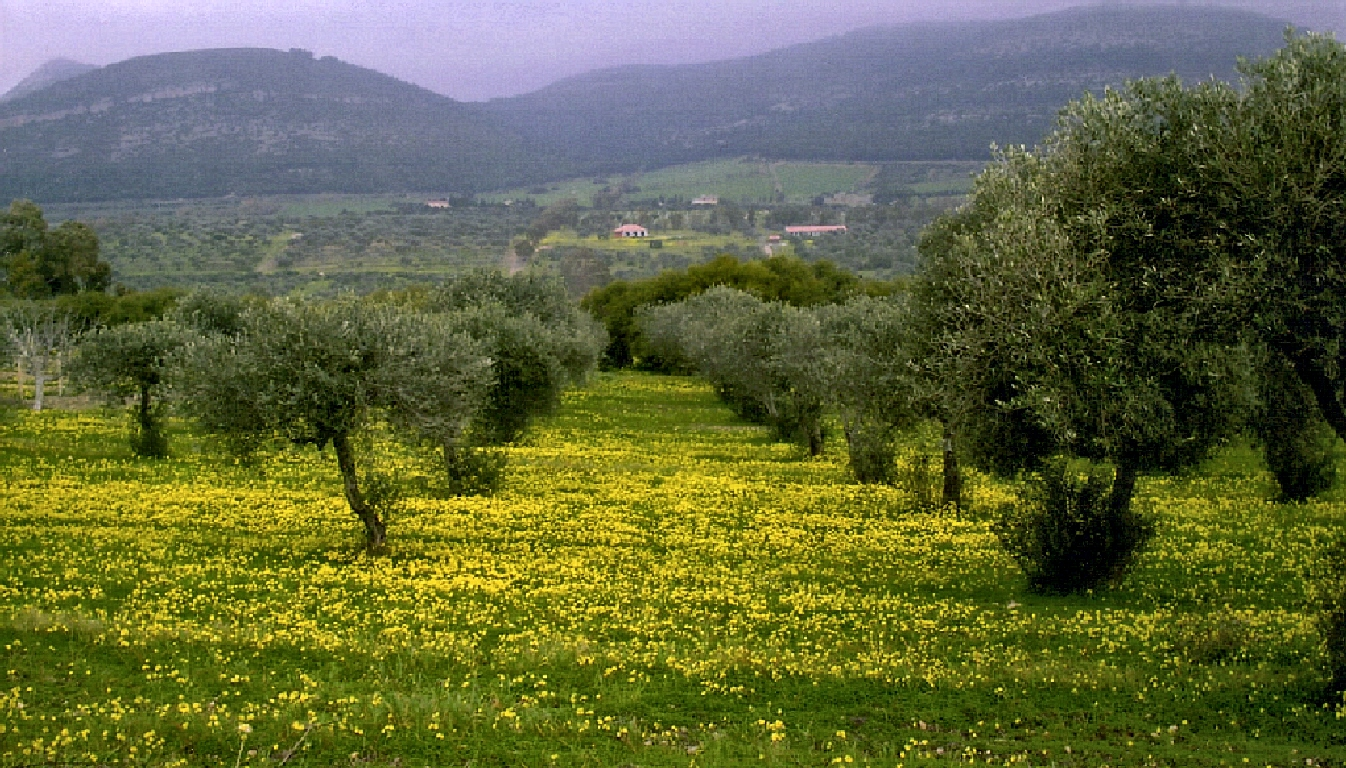 Image taken by Steire on 26 Feb 2007 on Vivitar digital cam. GFDL ( self made )